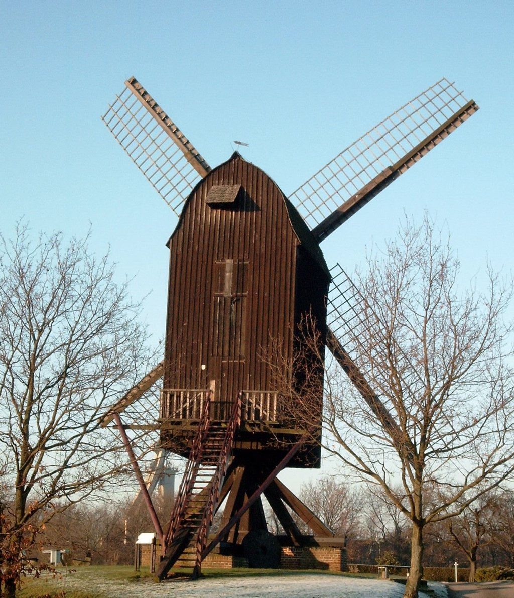 The post mill in Tönisberg, North Rhine-Westphalia, Germany.